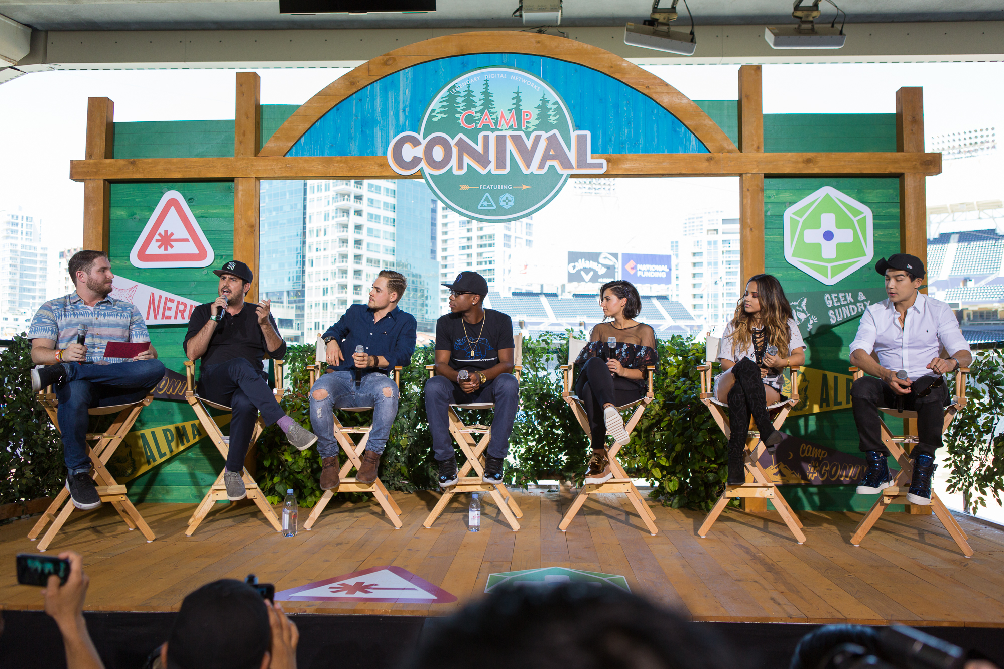 Cast & crew at the Power Rangers discussion Camp Conival offsite at Petco Park during San Diego Comic-Con 2016. From left: Dan Casey (moderator), Dean Israelite, Dacre Montgomery, RJ Cyler, Naomi Scott, Becky G and Ludi Lin